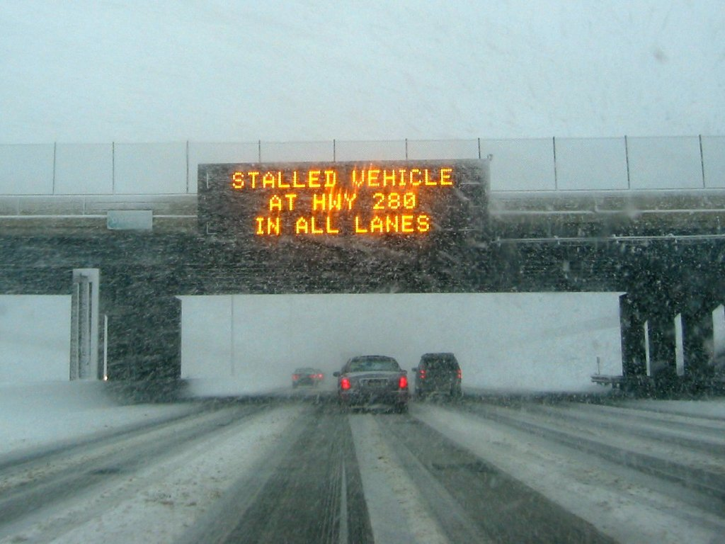 A changeable message sign attached to Dale Street over the westbound lanes of Interstate 94 in Saint Paul, Minnesota, USA. Text reads: "STALLED VEHICLE/AT HWY 280/IN ALL LANES".